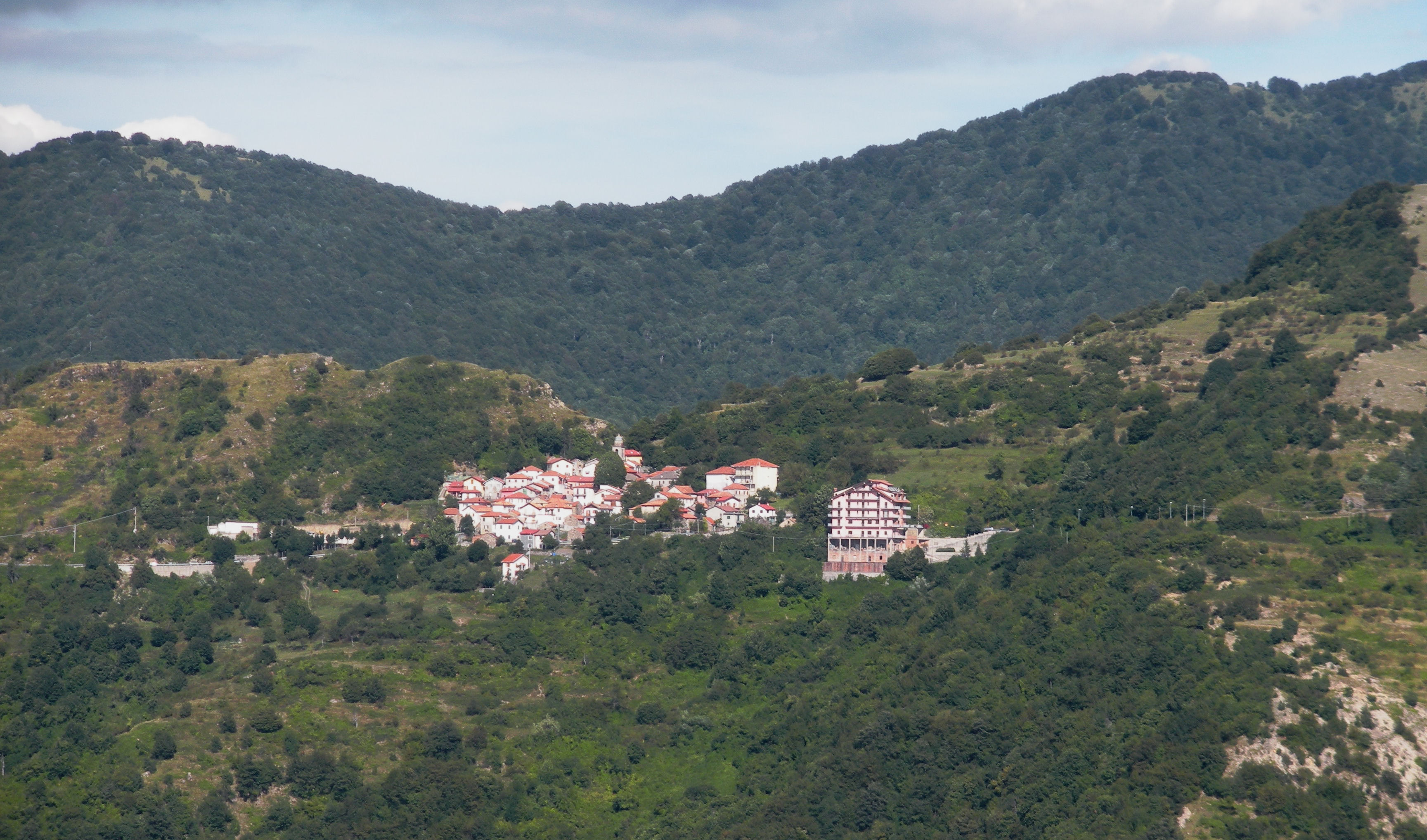 View of the village of Alpe (Vobbia, province of Genoa, Italy)